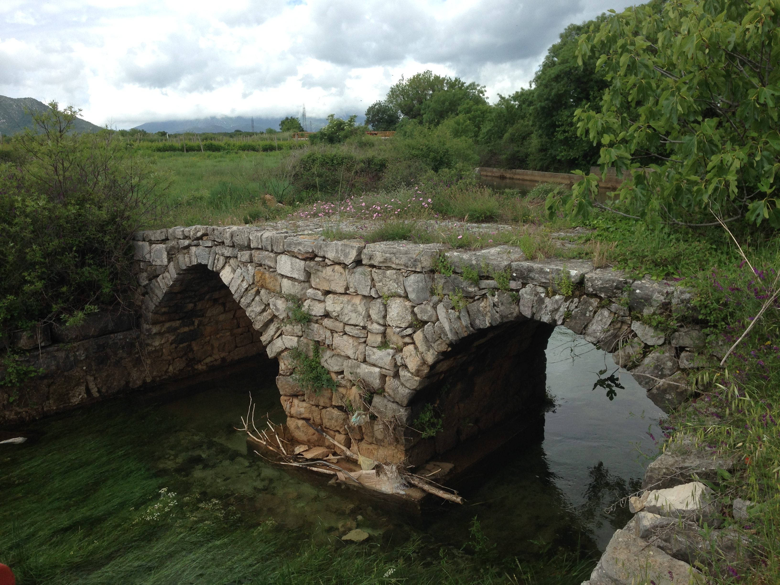 Old bridge in Trebinje